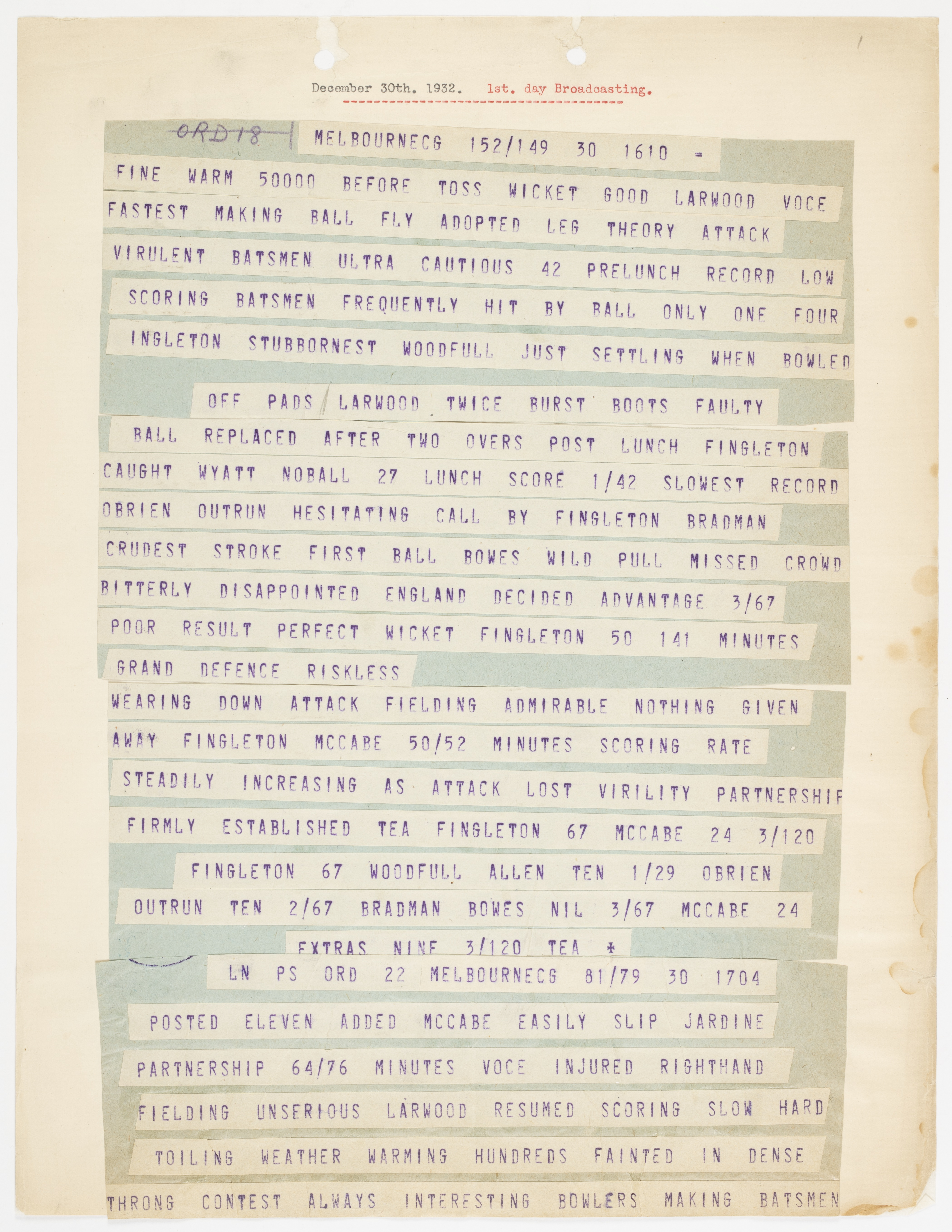 Description of play in the second Test of the 1932-1933 cricket series between Australia and England.